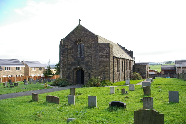 St Margaret's parish church Hapton, Manchester Road, Lancashire, seen from the west